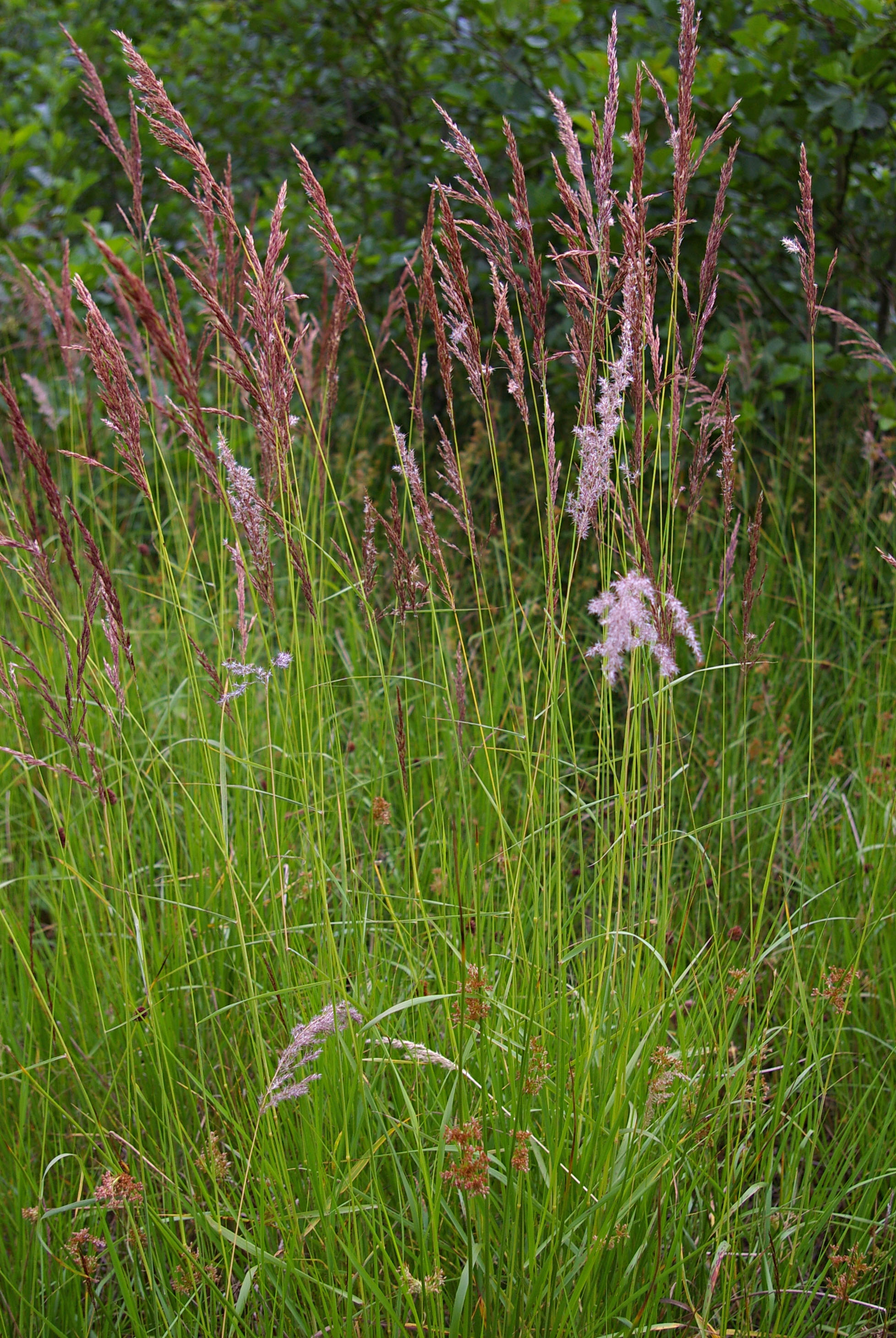 The grass Calamagrostis canescens in stage of flowering.